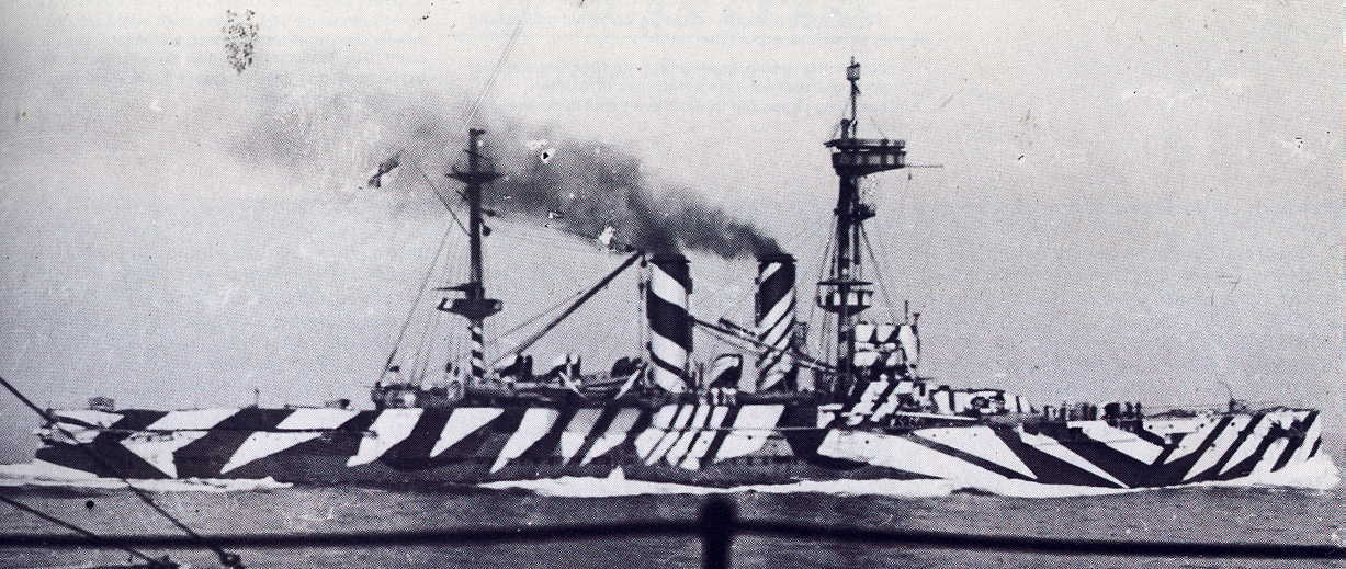 HMS London as a minelayer in May 1918, painted in dazzle camouflage of black, white, gray, blue, and cream.